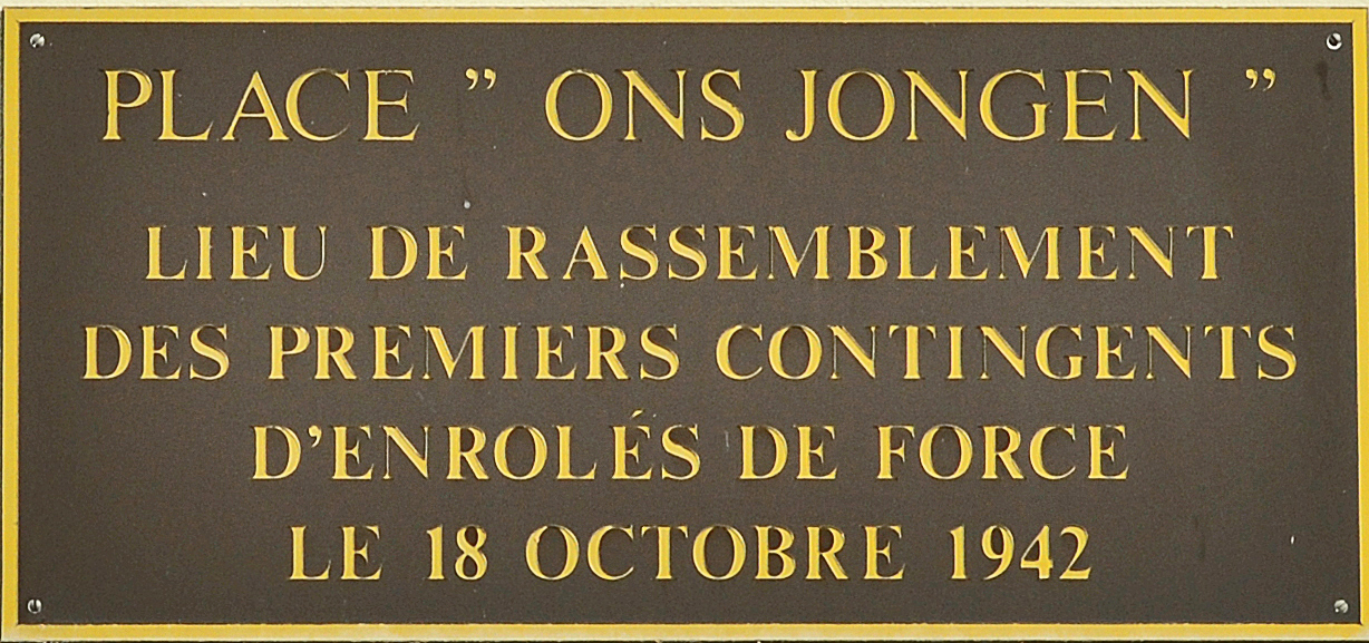 Luxembourg-Hollerich: Plaque on the wall of the former train station. The station is presently a World War II Memorial.